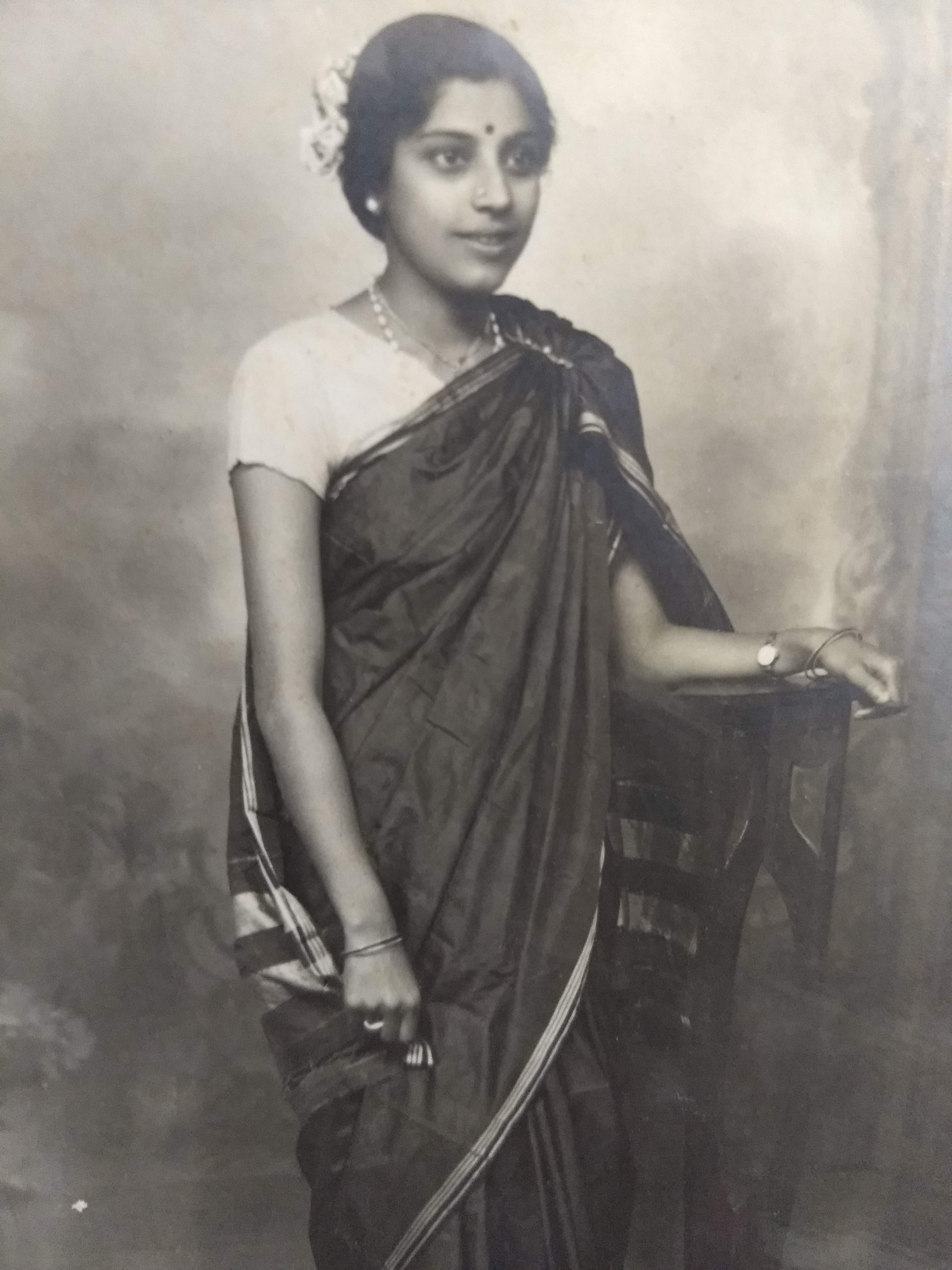 She is my Grandmother. This picture is from the family collection